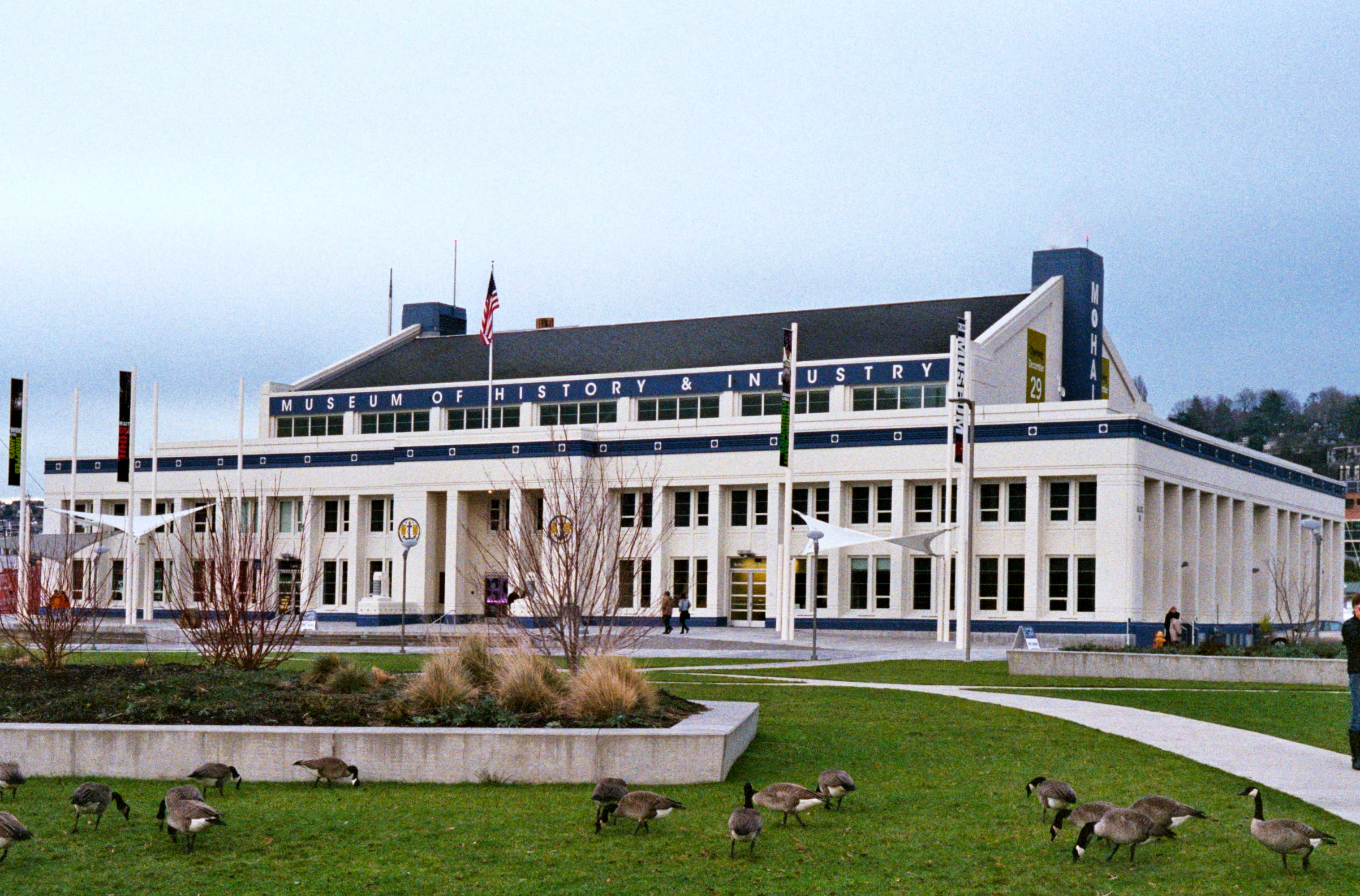 MOHAI Armory building at Lake Union Park west side